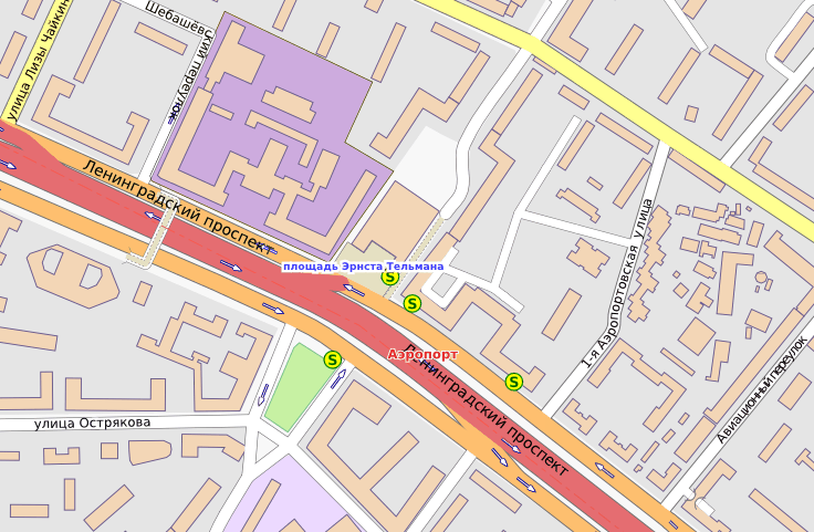 Aeroport metro map